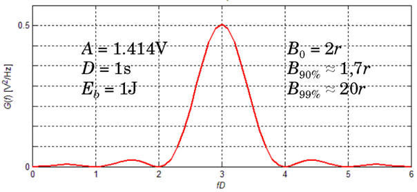 BPSK power spectral density